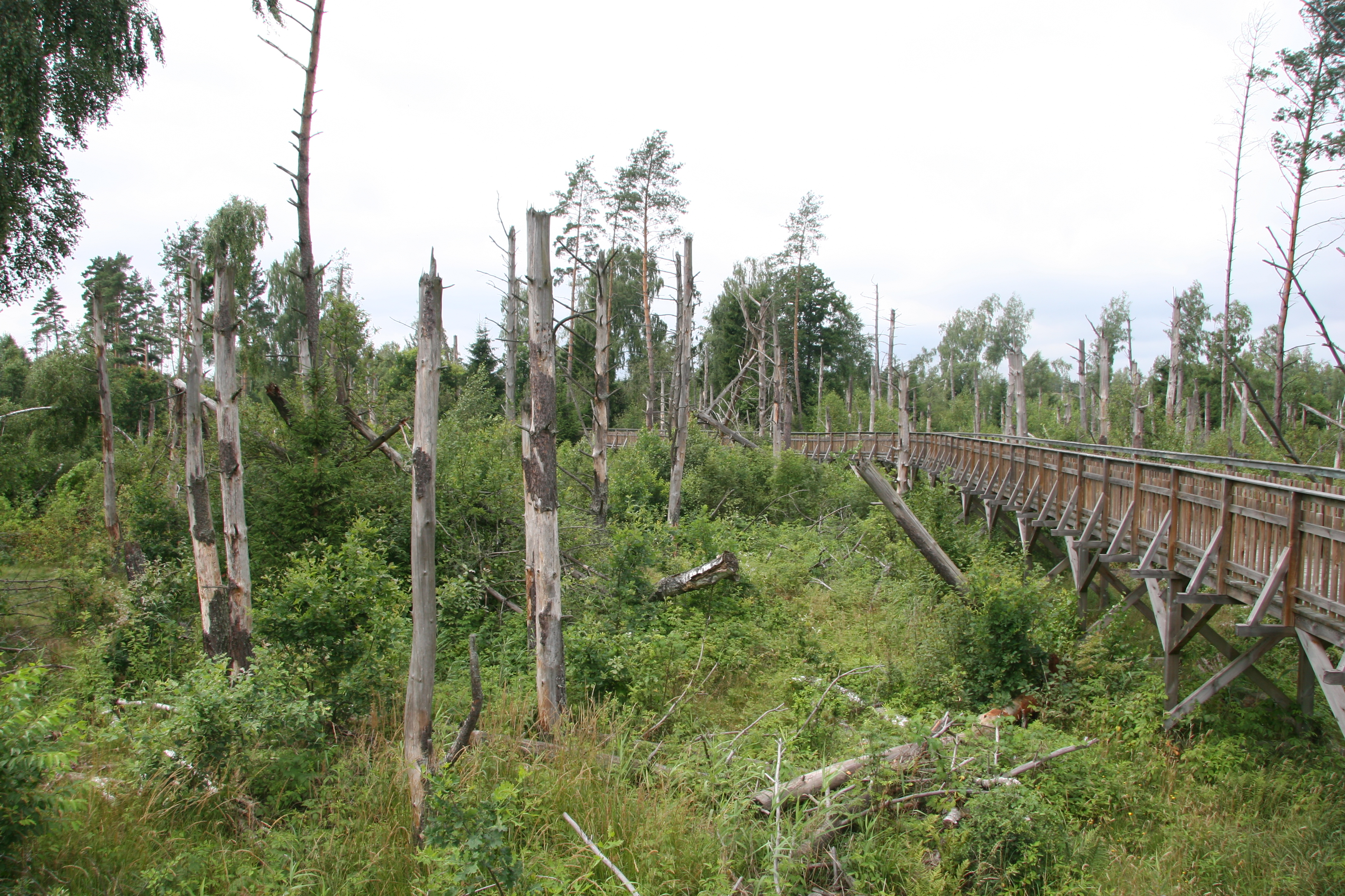 szast forest